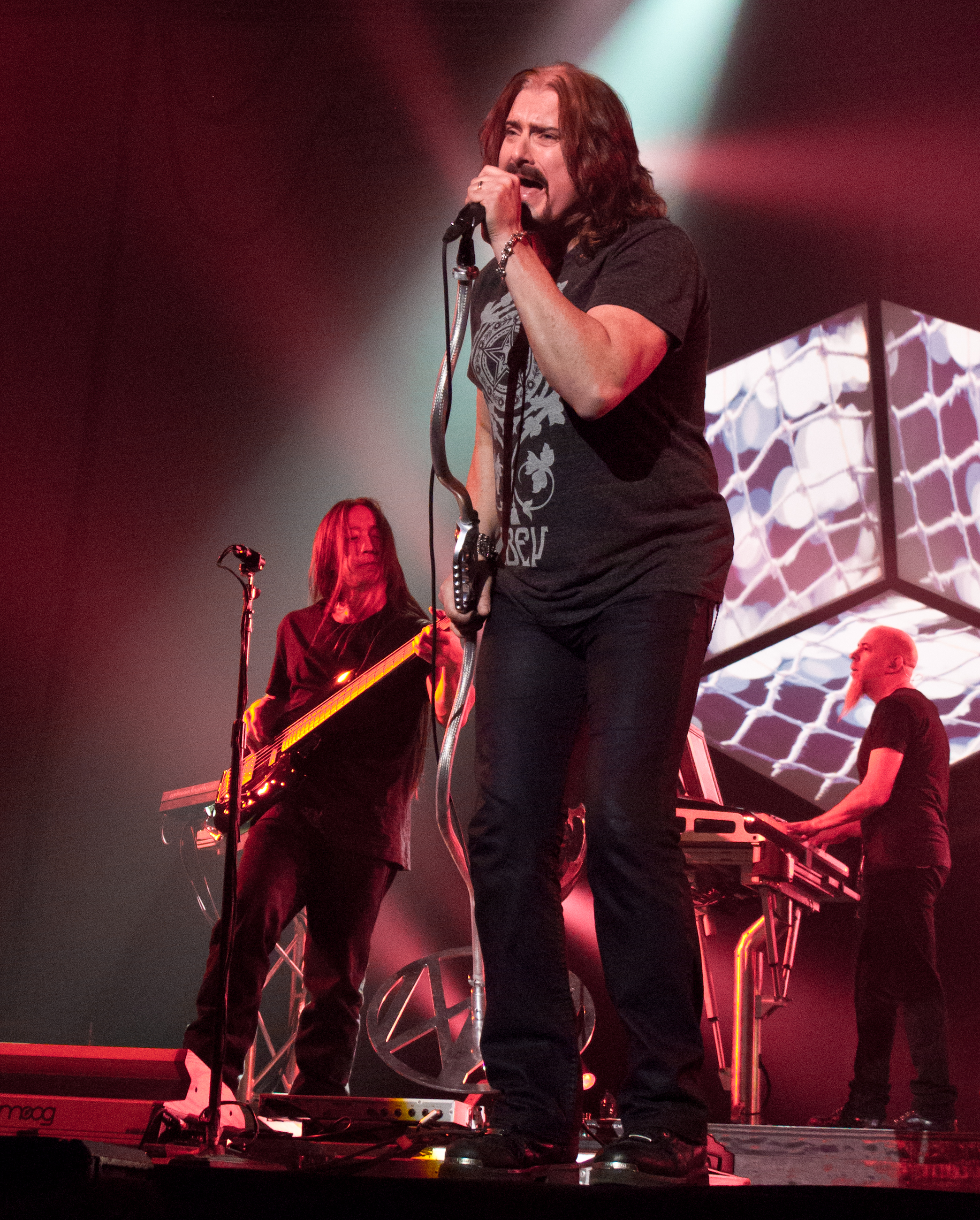 James LaBrie, John Myung and Jordan Rudess (vocalist, bassist and keyboardist of Dream Theater) live in 2012 during a Dream Theater concert.